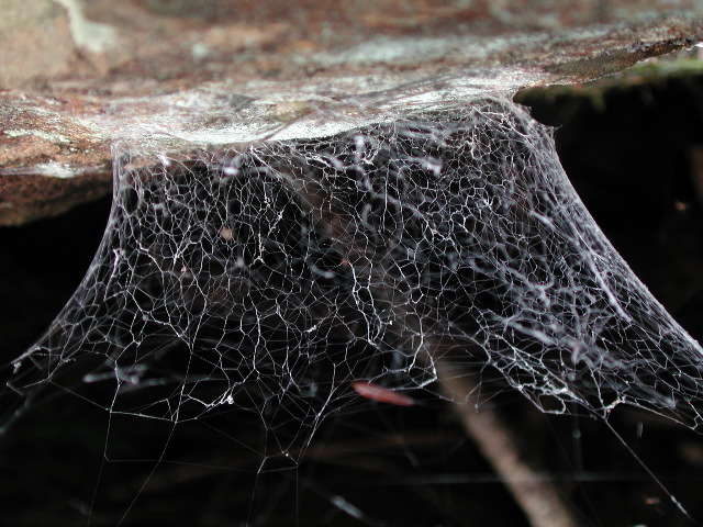 Hypochilus sp. web, Appalachia.